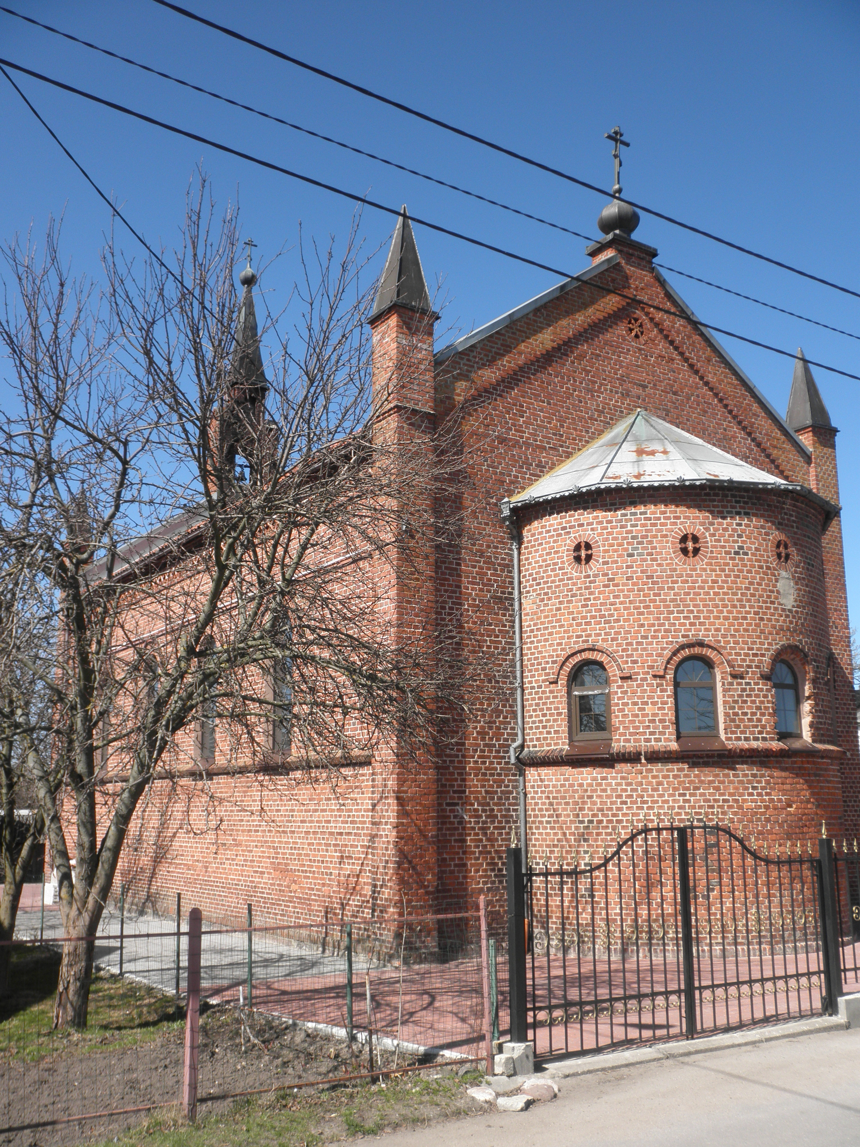 Church in Rossitten in East Prussia (Rybatschi in Kaliningrad Oblast)